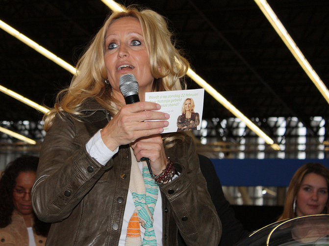 Dutch TV presenter and celebrity Natasja Froger